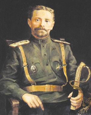 Vladimir Kappel